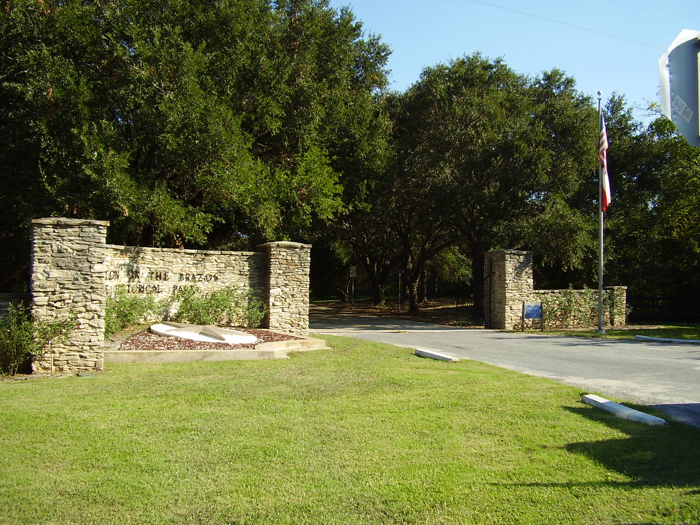 Washington on the Brazos State Historical Park entrance